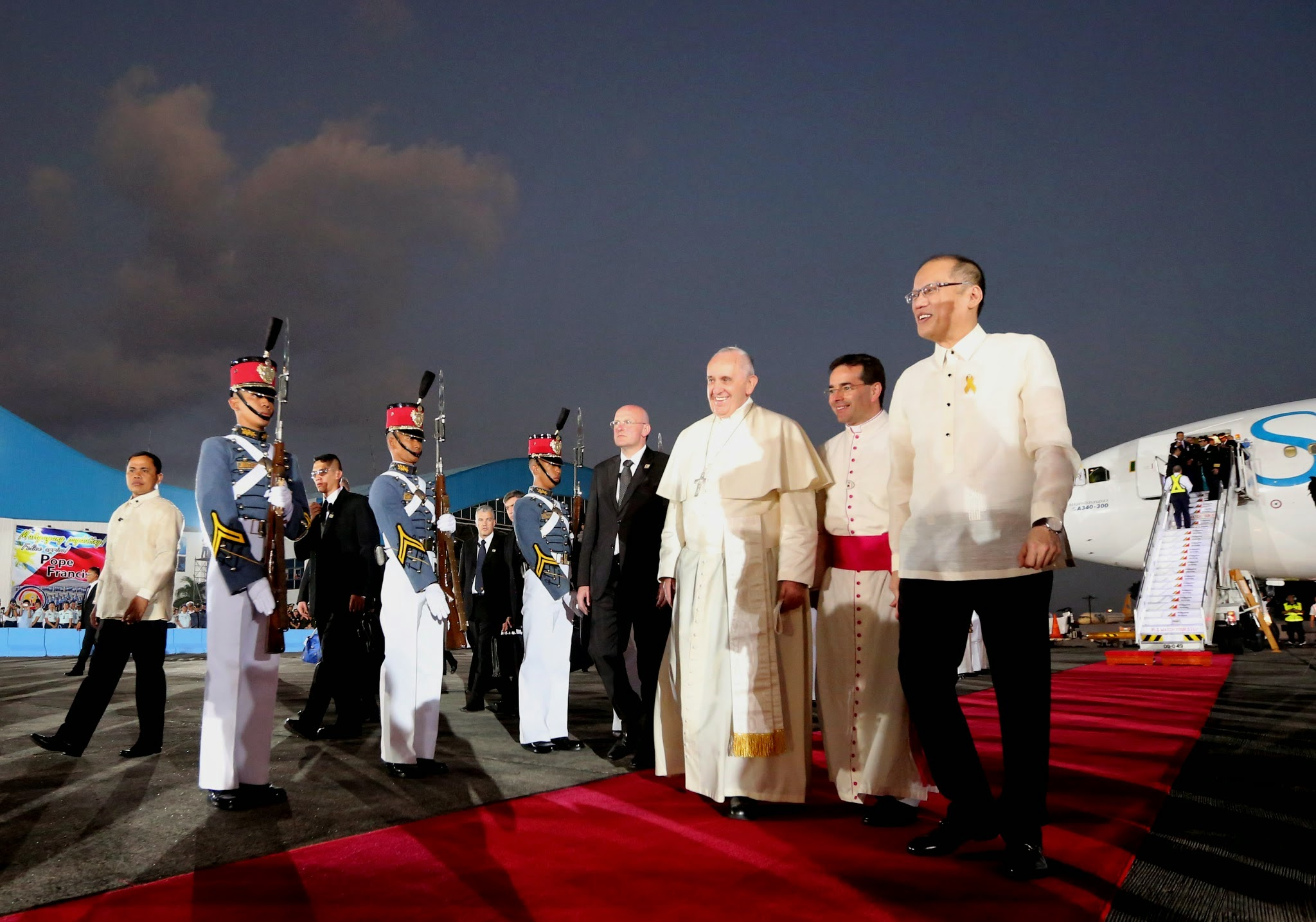 President Benigno S. Aquino III and His Holiness Pope Francis pass through the Foyer Honor Guards during the arrival ceremony at the 250th PAW of the Villamor Airbase in Pasay City for the State Visit and Apostolic Journey to the Republic of the Philippines on Thursday afternoon (January 15, 2015)